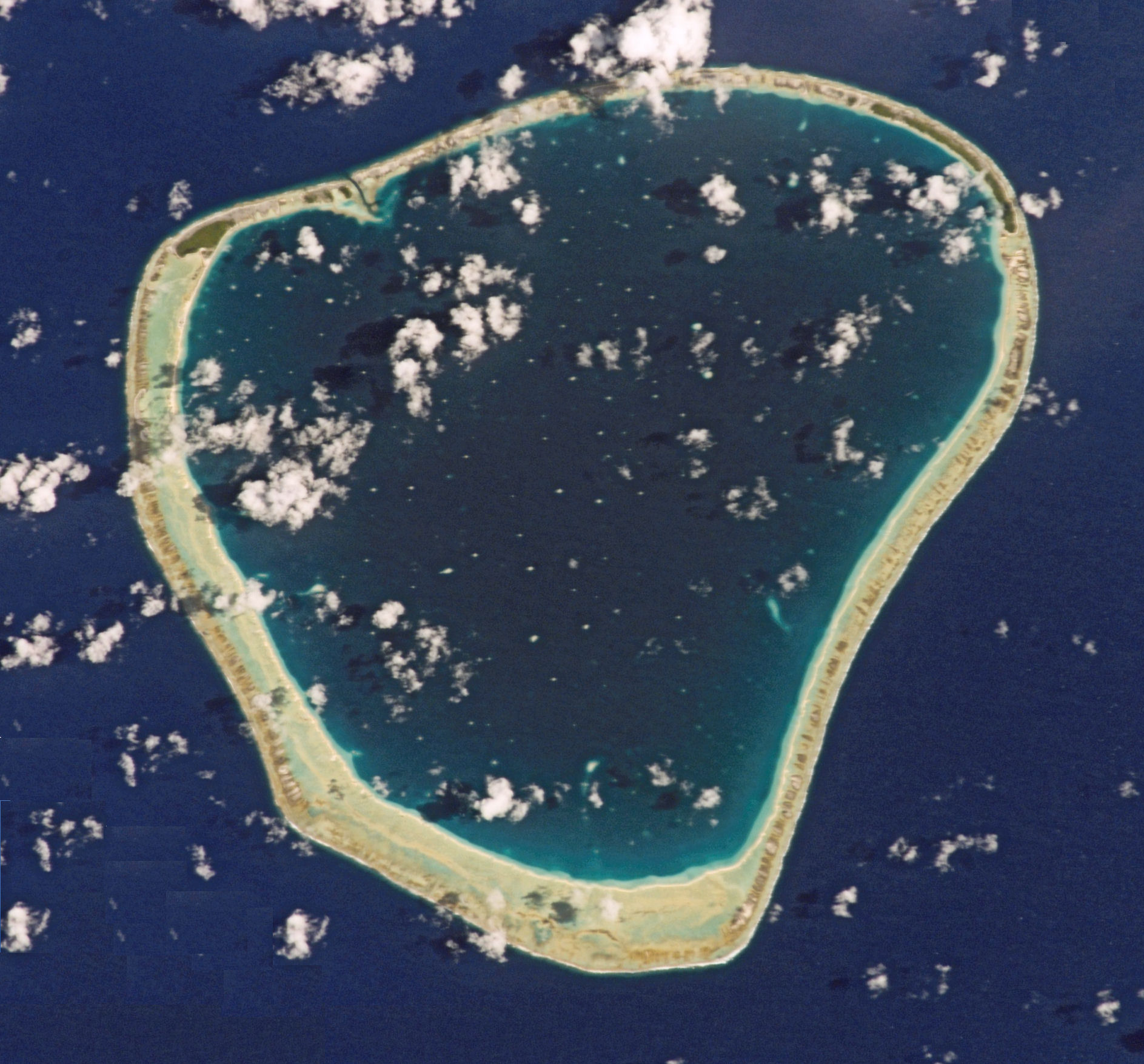 Atoll Motutunga (Tuamotu Archipelago, French Polynesia), from space.